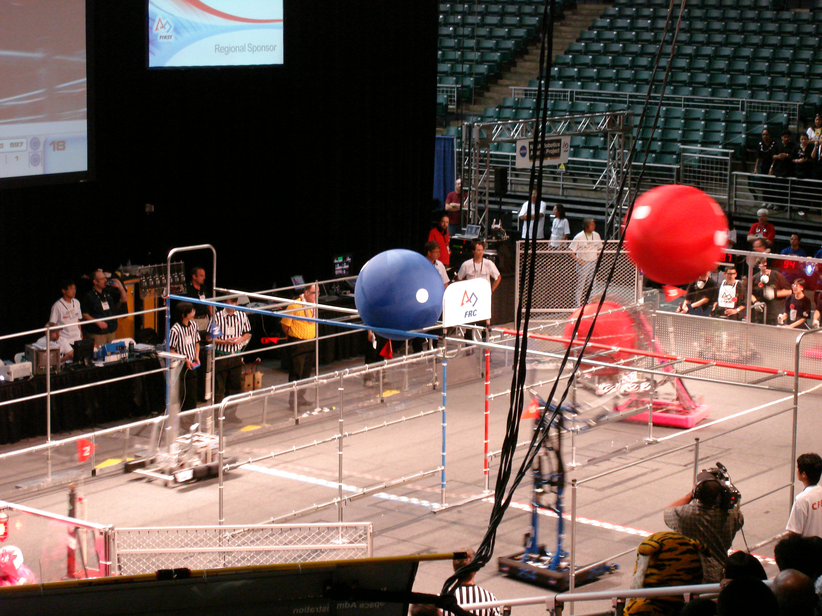 A picture of the 2008 FIRST Robotics Competition (FRC) regionals, located in Hawaii (at the Stan Sheriff center in the University of Hawaii)